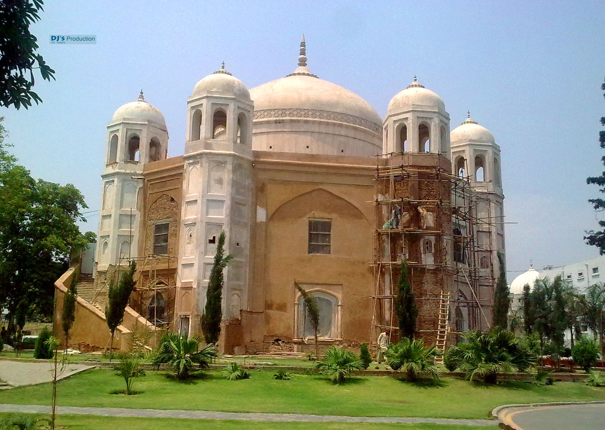 Tomb of Anarkali This is a photo of a monument in Pakistan identified as the PB-86